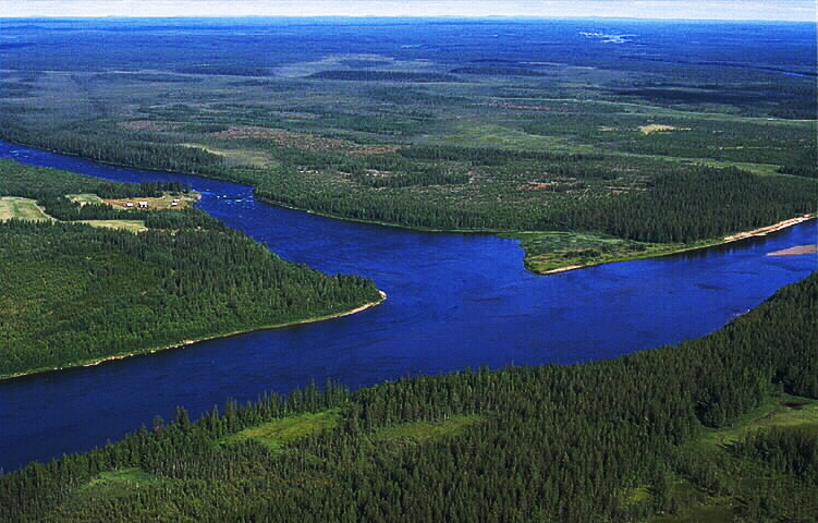 Palokorva where the river Lainioälven falls out into river Torneälven in Pajala municipality, Norrbotten county, Sweden